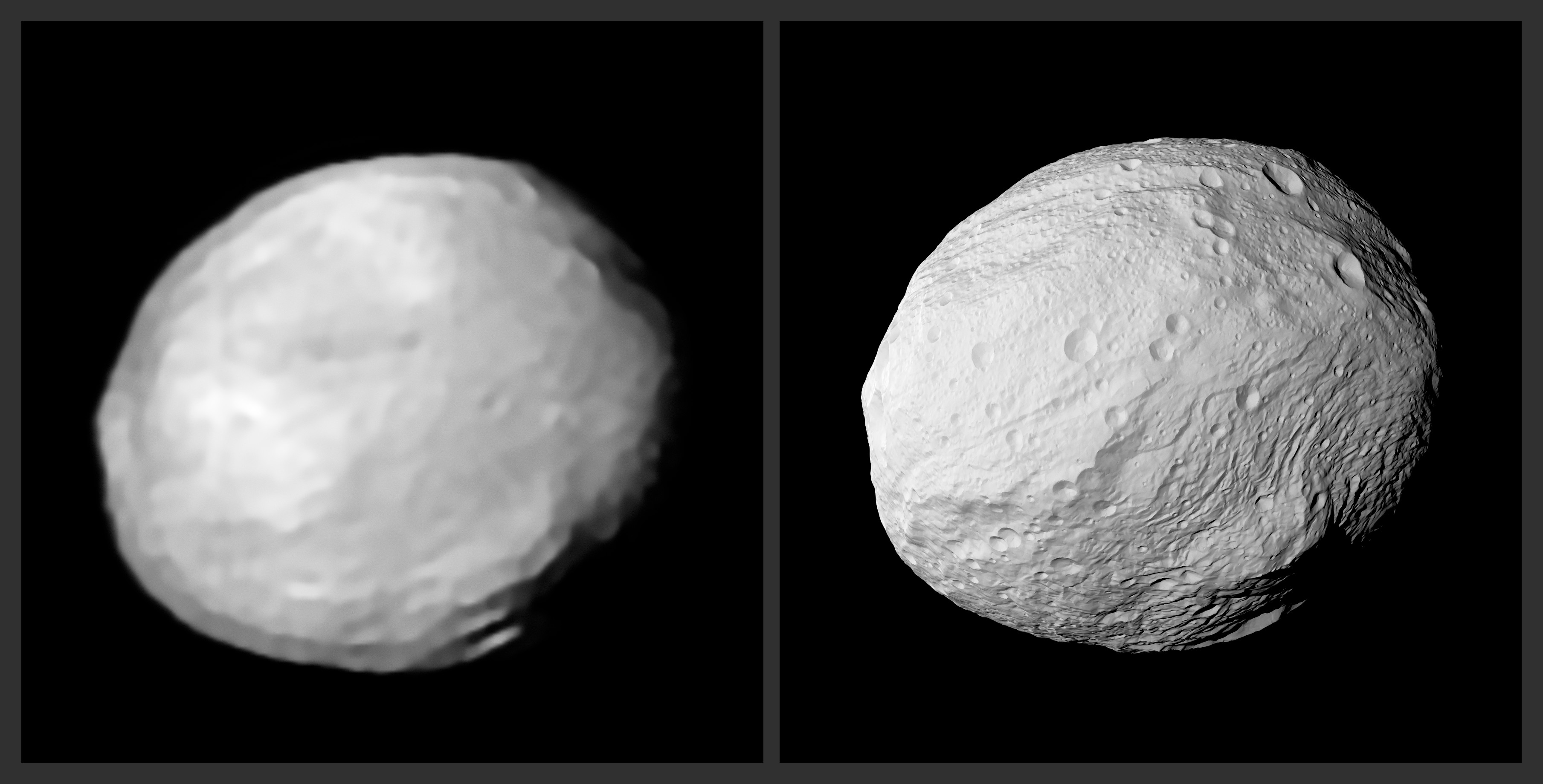 Sitting between Mars and Jupiter, the doughnut-shaped asteroid belt is packed full of rocky bodies and debris. Despite its fragmented, rubbly nature, the total mass contained within the belt is considerable — roughly four per cent of that of the Moon! The majority of this mass is contained within two distinctive bodies: Ceres, a dwarf planet estimated to make up a third of the mass of the belt, and the asteroid Vesta, which holds around nine per cent of it. Vesta is pictured here. Vesta was recently observed by the SPHERE/ZIMPOL instrument on ESO’s Very Large Telescope (VLT) — the SPHERE image is shown on the left, with a synthetic view derived from space-based data shown on the right for comparison. SPHERE, the Spectro-Polarimetric High-contrast Exoplanet REsearch instrument, is a powerful planet-finding and direct imaging instrument. ZIMPOL is one of its subsystems: a specialised camera perfectly suited to taking very sharp images of small objects — like Vesta. The synthetic image was generated using a tool developed for space missions called OASIS. Factors such as the reflectance of Vesta’s surface and the geometric conditions of the VLT/SPHERE observations where accounted for by OASIS, which used a 3D model of Vesta’s shape based on images from NASA’s Dawn spacecraft (which completed a 14-month survey of Vesta between 2011 and 2012). SPHERE’s image of Vesta is impressive given the separation between Earth and Vesta, and the small size of the asteroid — it lies twice as far from the Sun as our planet does, and has a mean diameter of just 525 kilometres. It shows Vesta’s main features: the giant impact basin at Vesta's south pole, and the mountain at the bottom right. This is the central peak of the Rheasilvia basin, and is roughly 22 kilometres high — over twice as high as the tallest mountain on Earth, Mauna Kea, which rises roughly 10 kilometres from the basin of the Pacific Ocean floor, and nearing the height of the mammoth Martian volcano Olympus Mons.